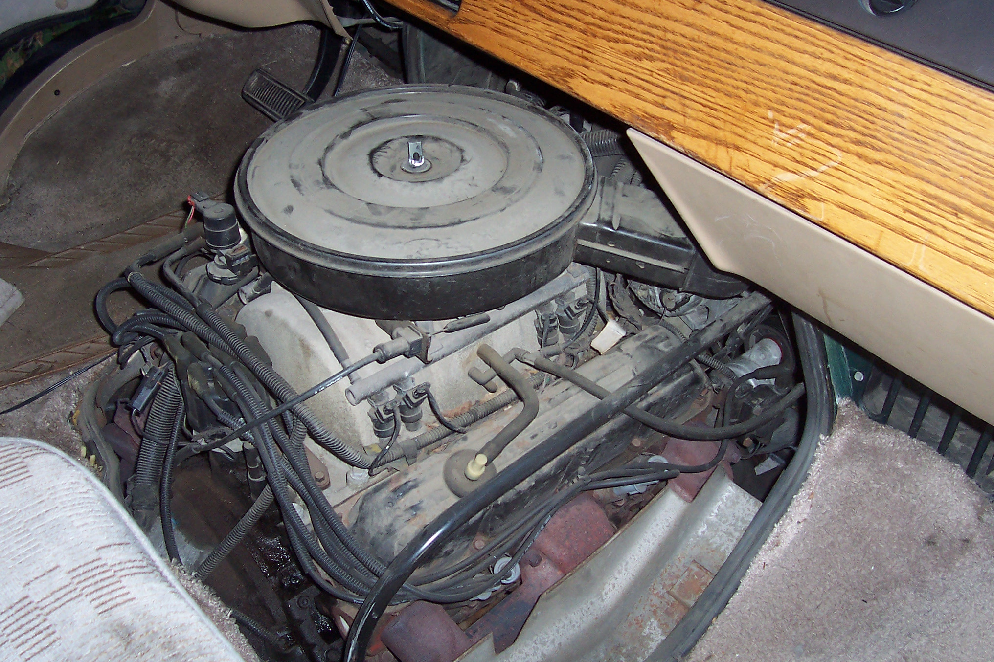 Engine of a 1996 Dodge Ram Van with doghouse removed. Particular engine is a Magnum V8 5.2 Liter (318 cubic inch).